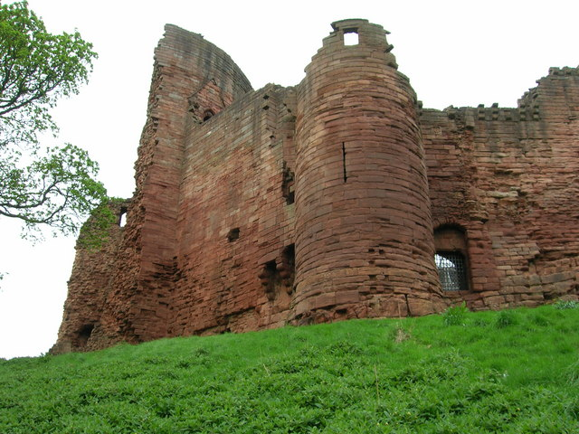 Bothwell Castle Imposing ruined castle set above the River Clyde. In the care of Historic Scotland.